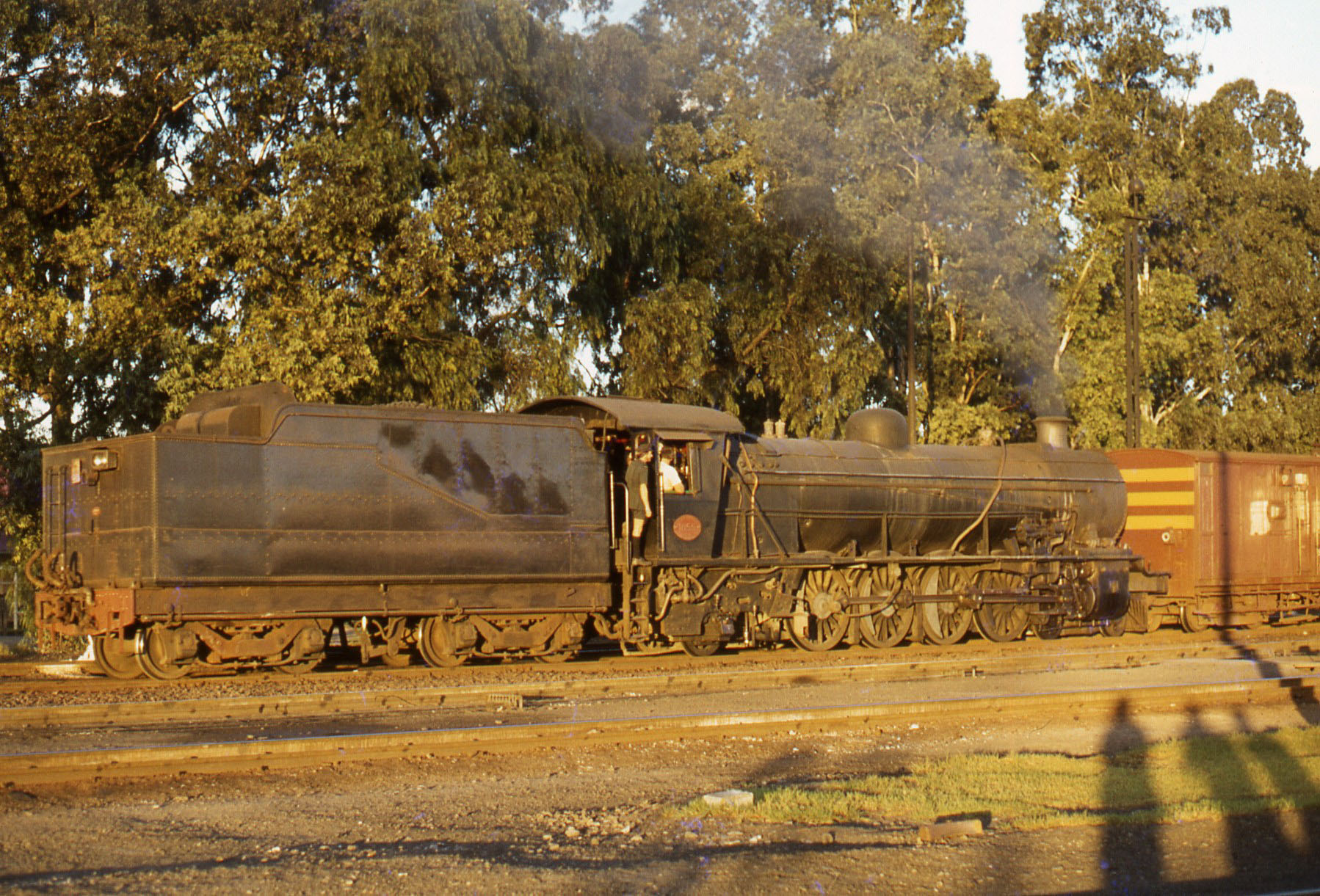 SAR Class 15AR 1855 (4-8-2) BP Location: Klipplaat